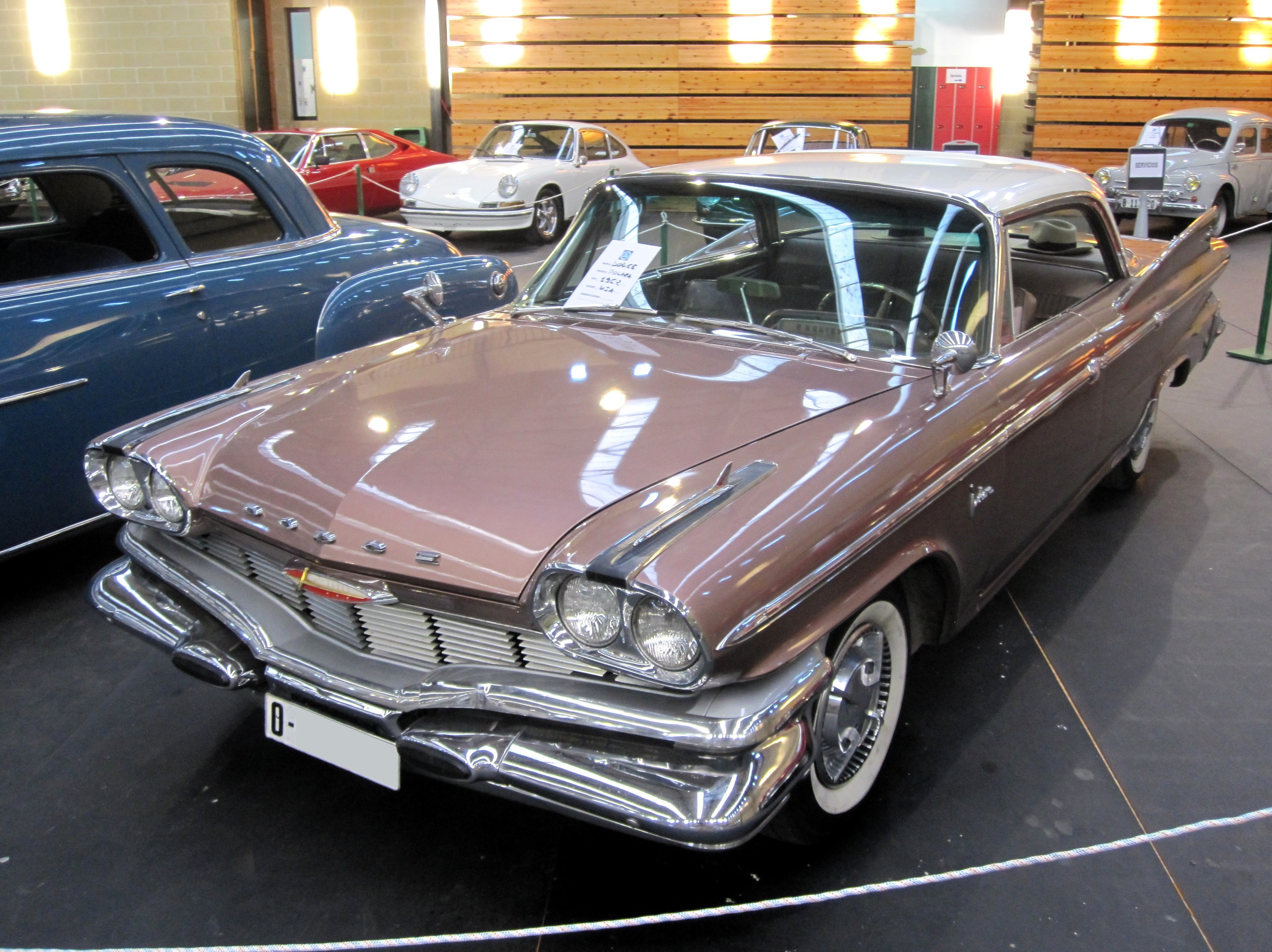 1960 Dodge Polara 4-Door Hardtop So nice... Registered in Oviedo, a city in the north of Spain in 1969, when it was imported by two Spanish brothers that bought her new in Virginia, USA, and were coming back to their home during 1968. Jaime Queralt-Lortzing Beckmann is his lucky owner since 2005. The picture was took during an exposition in Llanes in 2010, organized by Fernando de la Hoz.